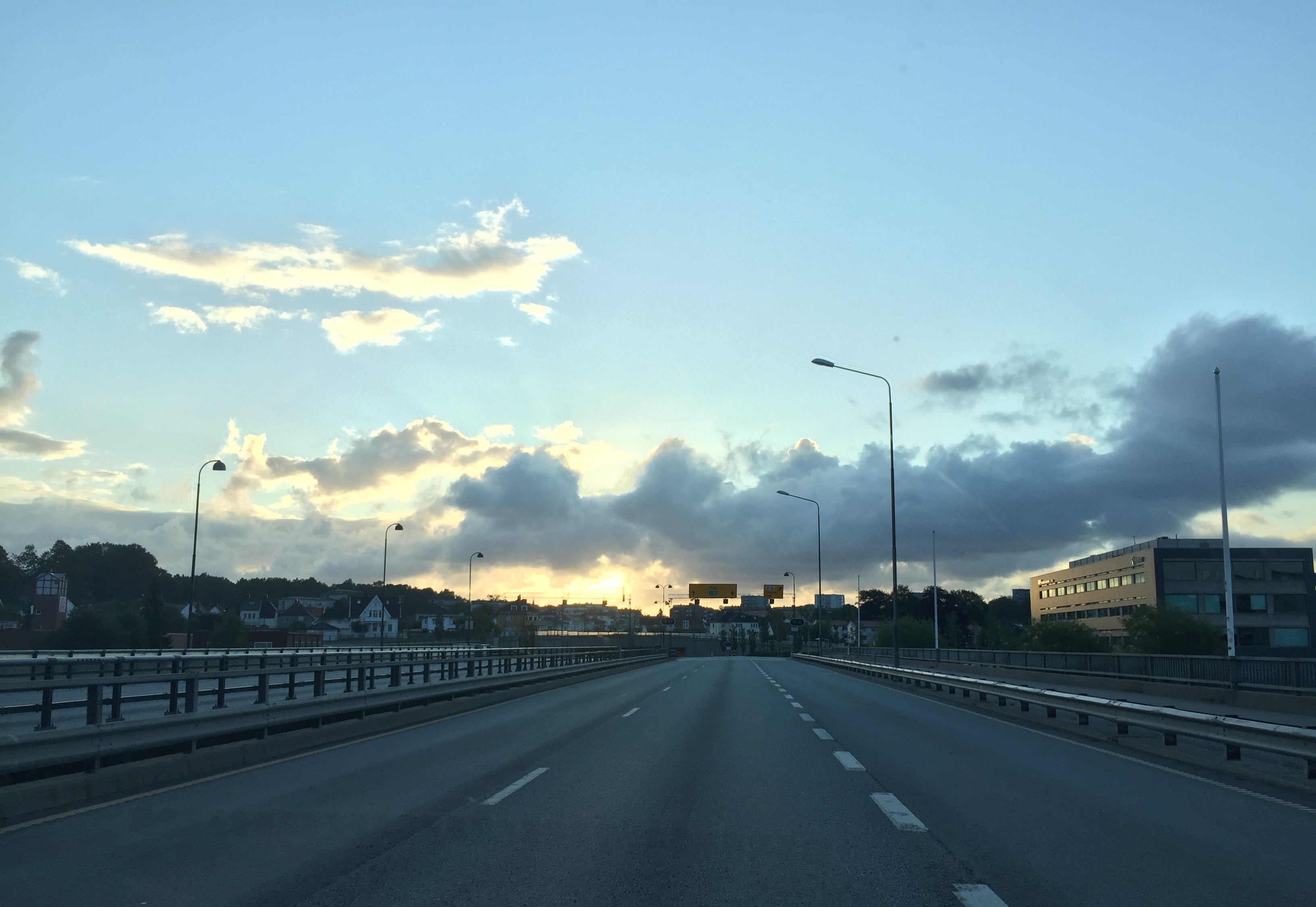 Oddernesbrua E18 in Kristiansand